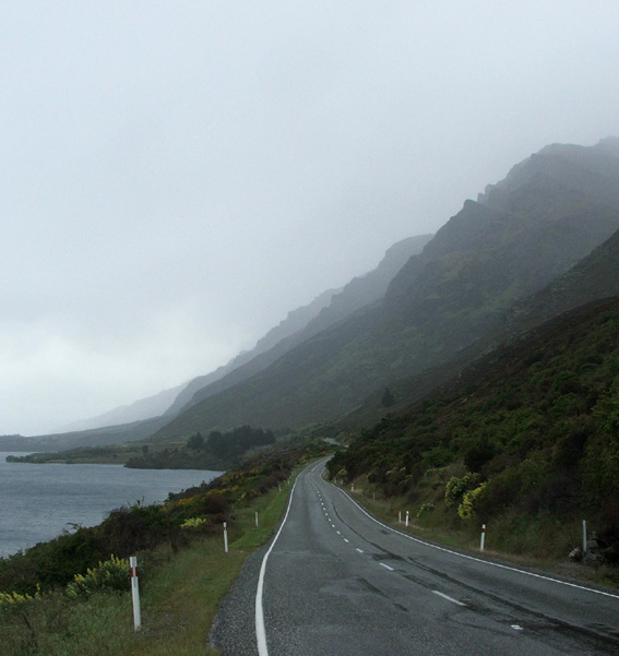 New Zealand State Highway 6 skirts the shore of Lake Wakatipu and The Remarkables range. Photograph by James Dignan (User:Grutness), November 25, 2008